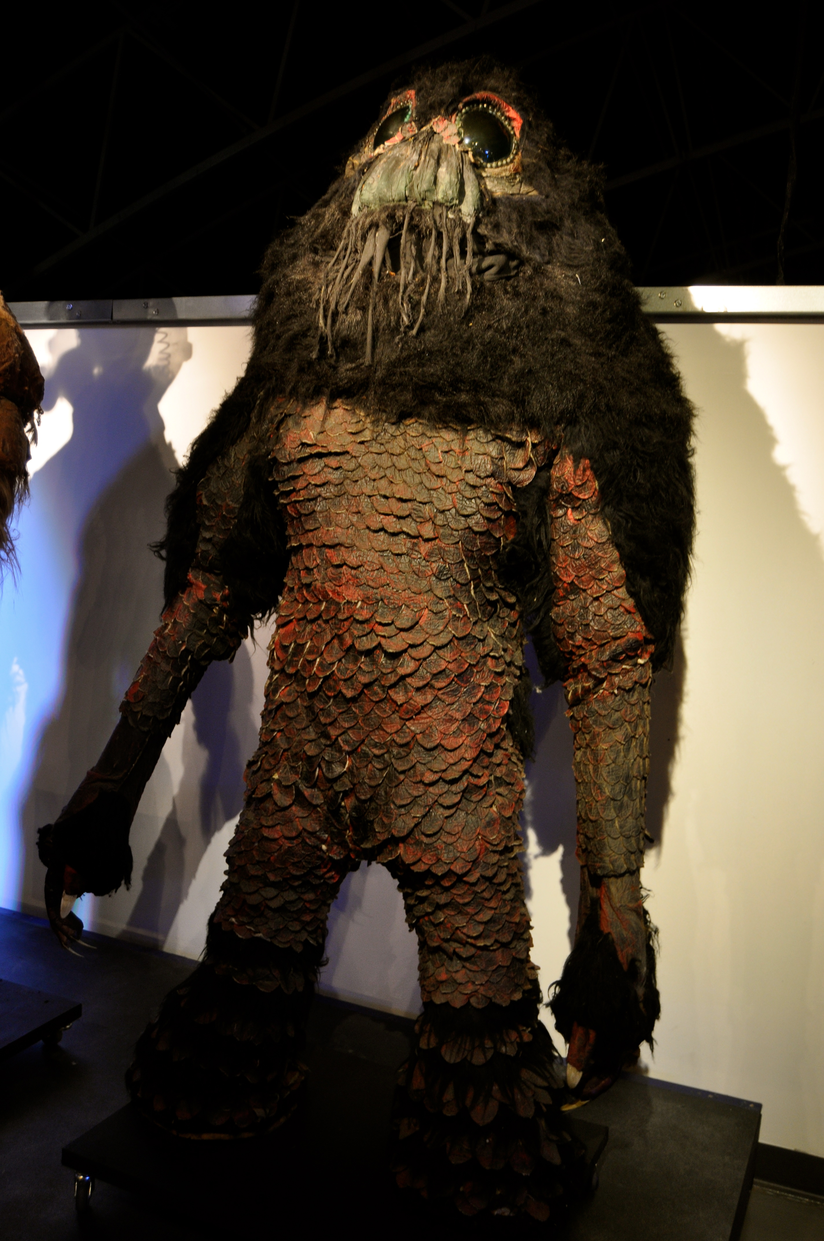 DWE Cardiff Bay, Port Teigr November 2016 Doctor Who Experience